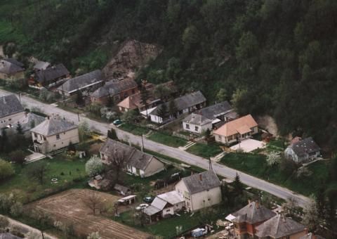 Jásd, Hungary, aerialphotgraphy